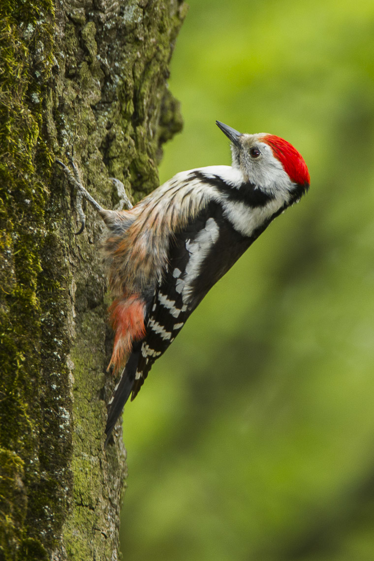 Middle-spotted Woodpecker - HungaryCS4E4424